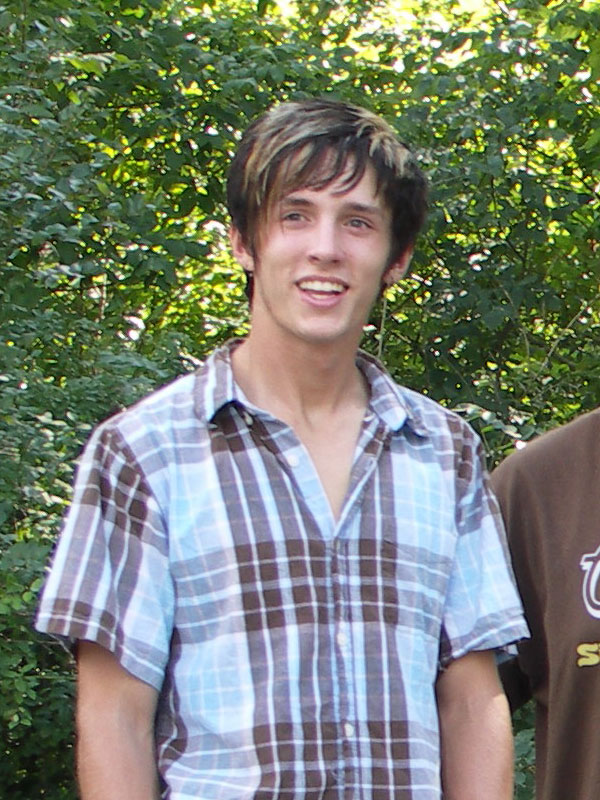 Tyler "Telle" Smith, circa 2003.